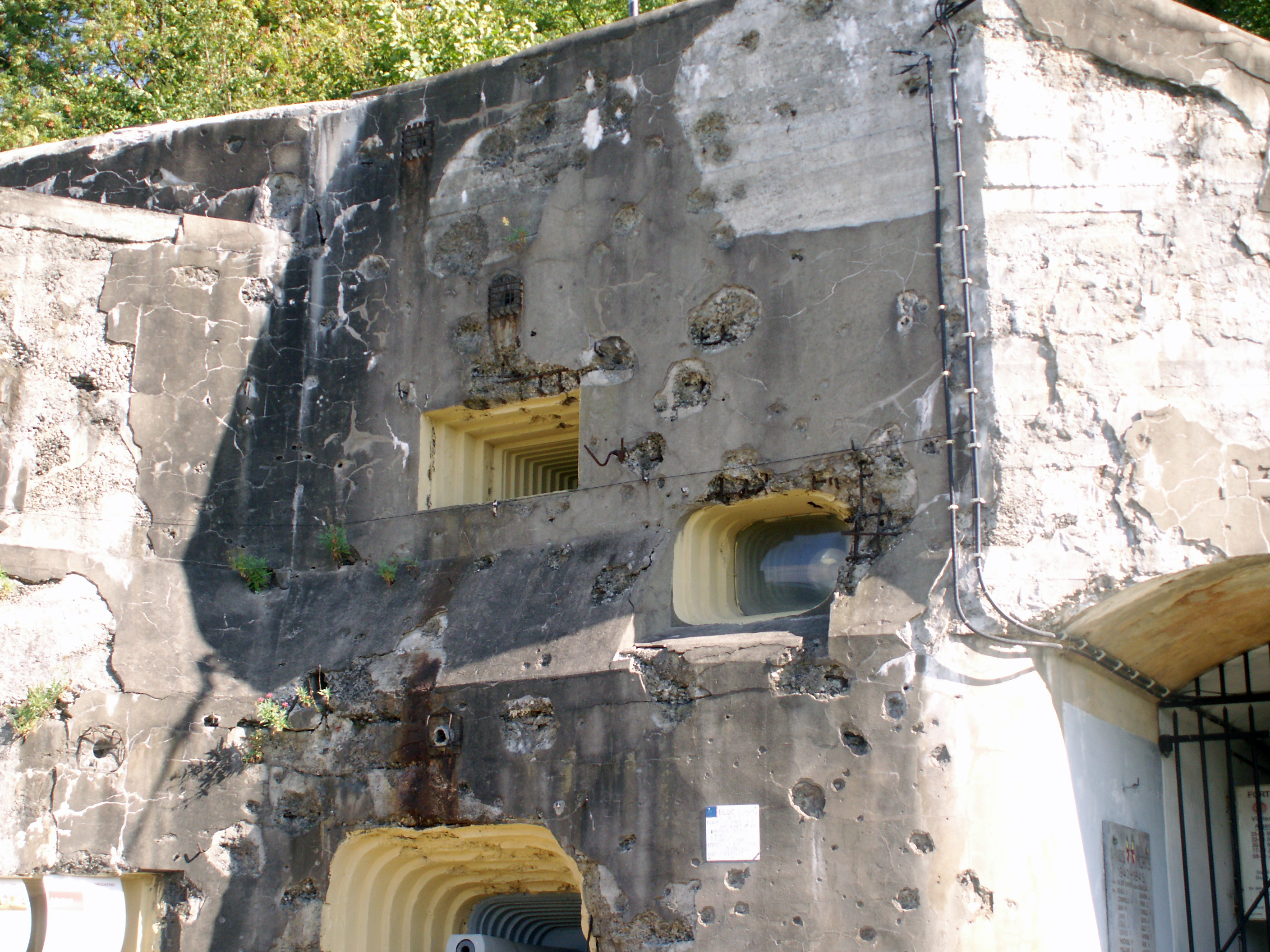 The parts of Fort Eben-Emael visible above ground level are scarred by heavy fighting during World War II. The heavily fortified structure (most of it below ground) was supposed to be unassailable, until a German commando unit arrived from above by using glider planes.